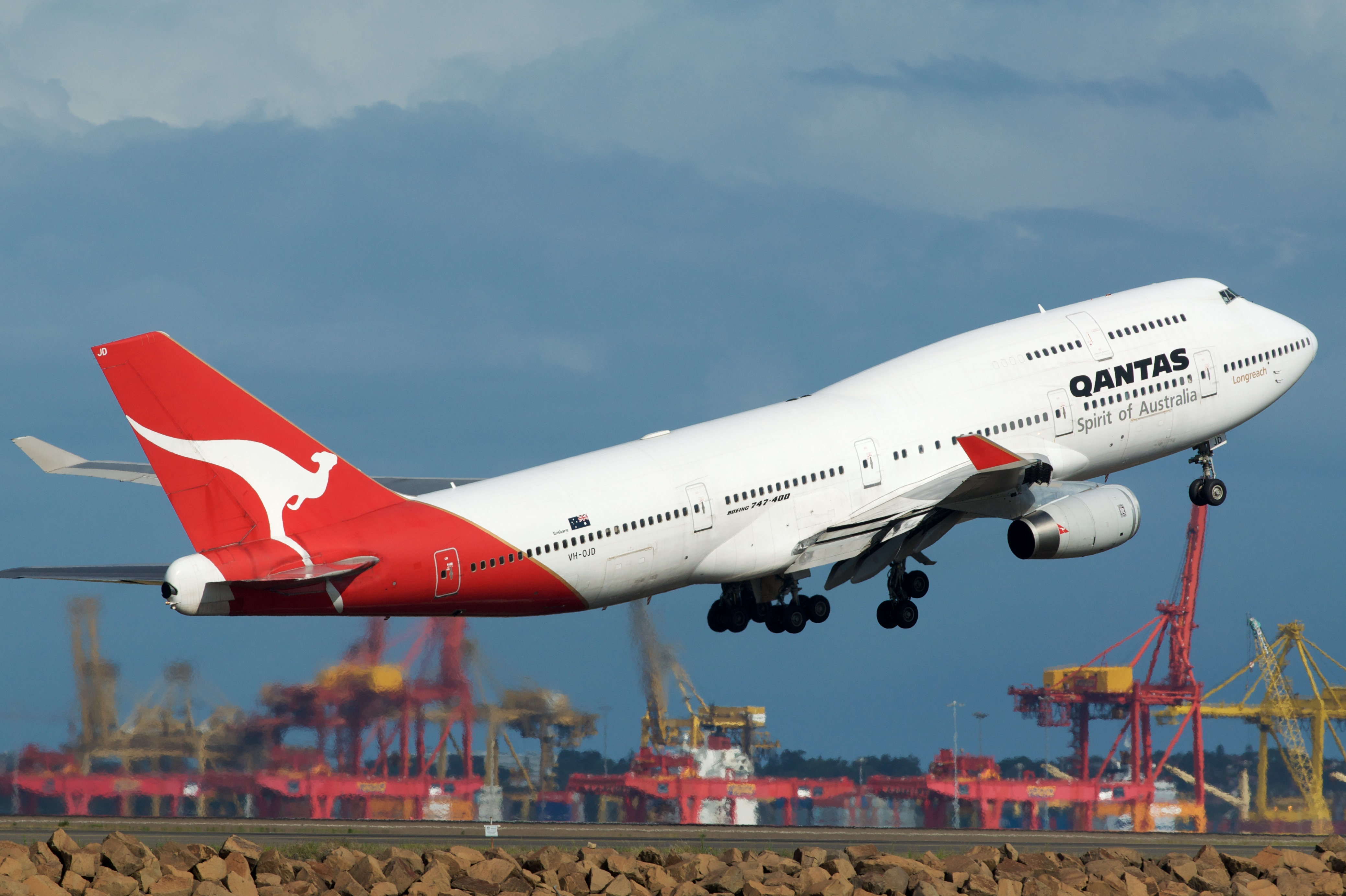 A Qantas Boeing 747-400 aircraft departing Sydney Airport